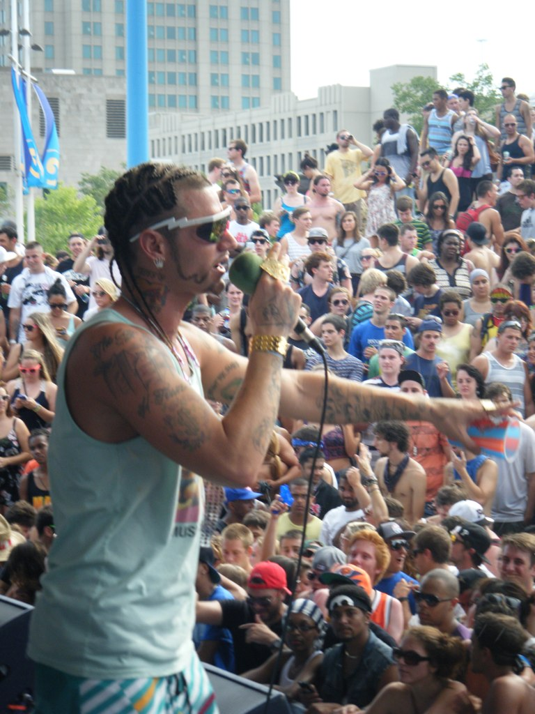 Rapper Riff Raff performs.